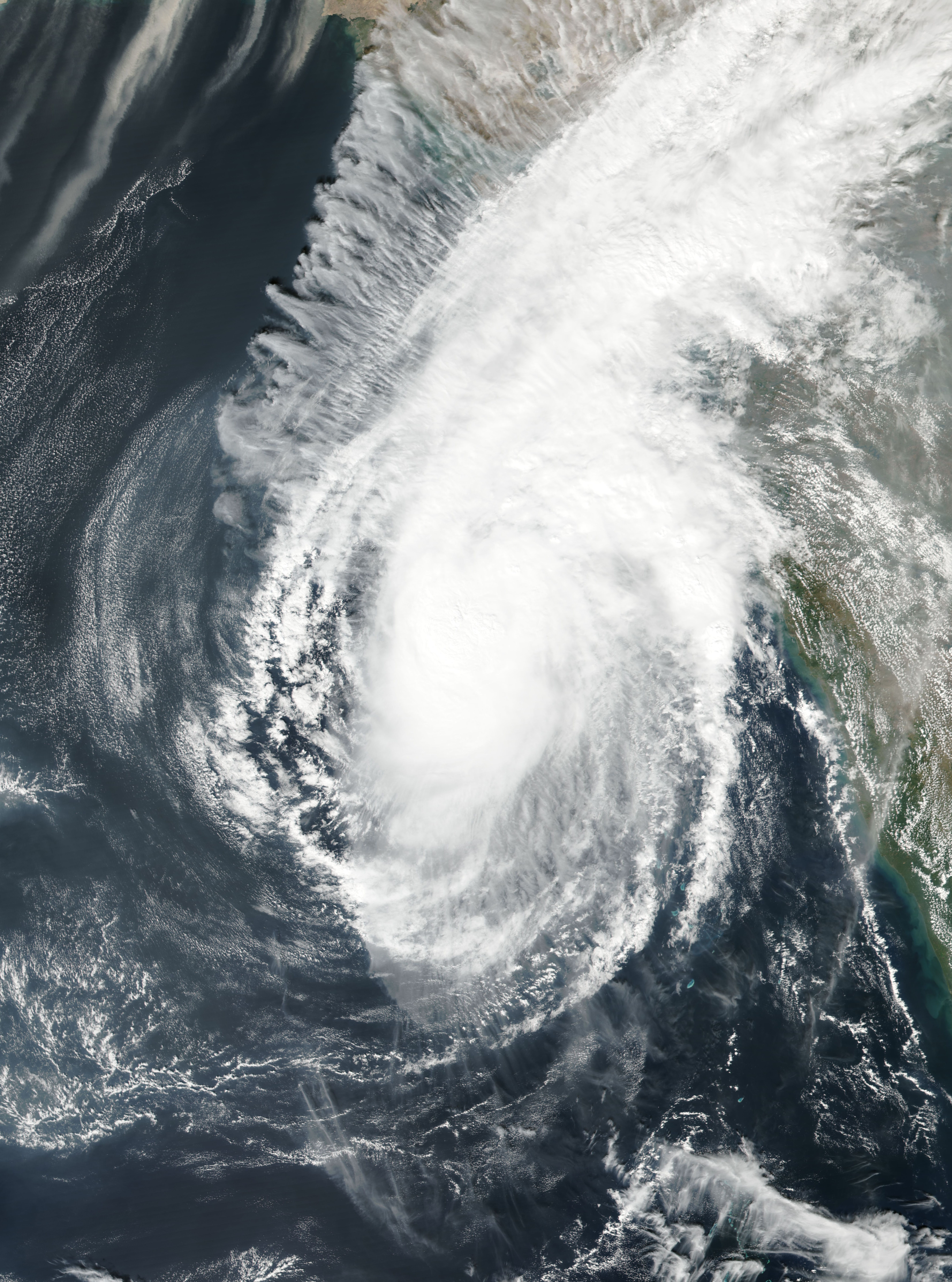 Cyclone Ockhi (BOB 07 / 03B) weakening over in the Arabian Sea on December 4, 2017